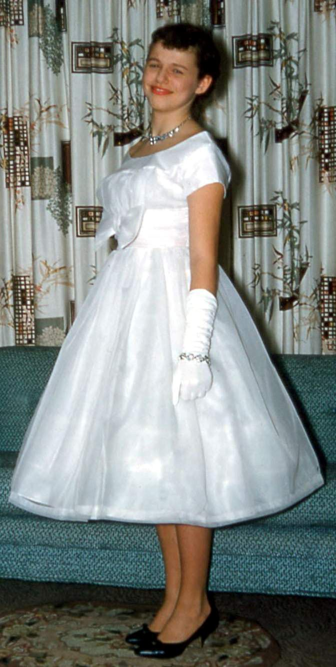 Girl in prom dress, USA, 1950s.